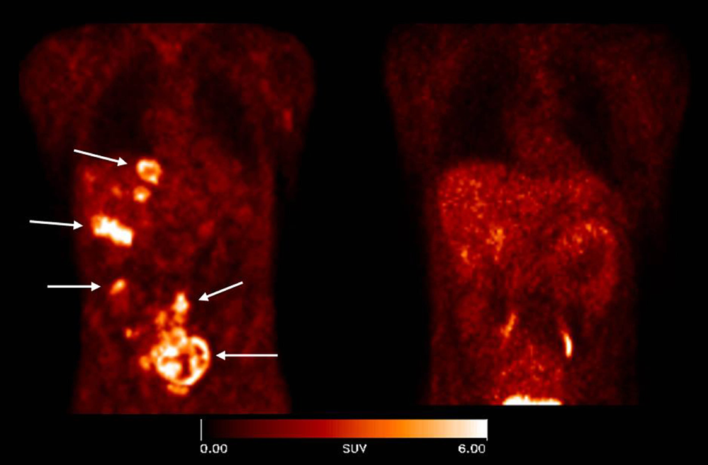 Positron emission tomography of avß3 integrin expression in tumors